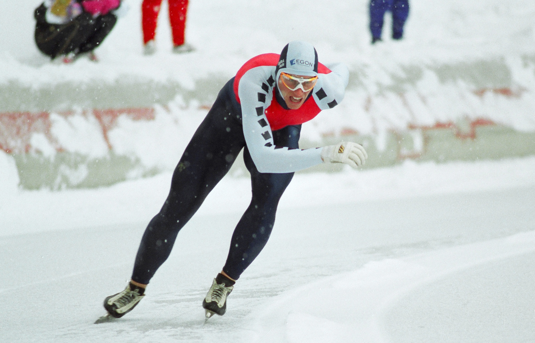 Rintje Ritsma is a former Dutch speedskater